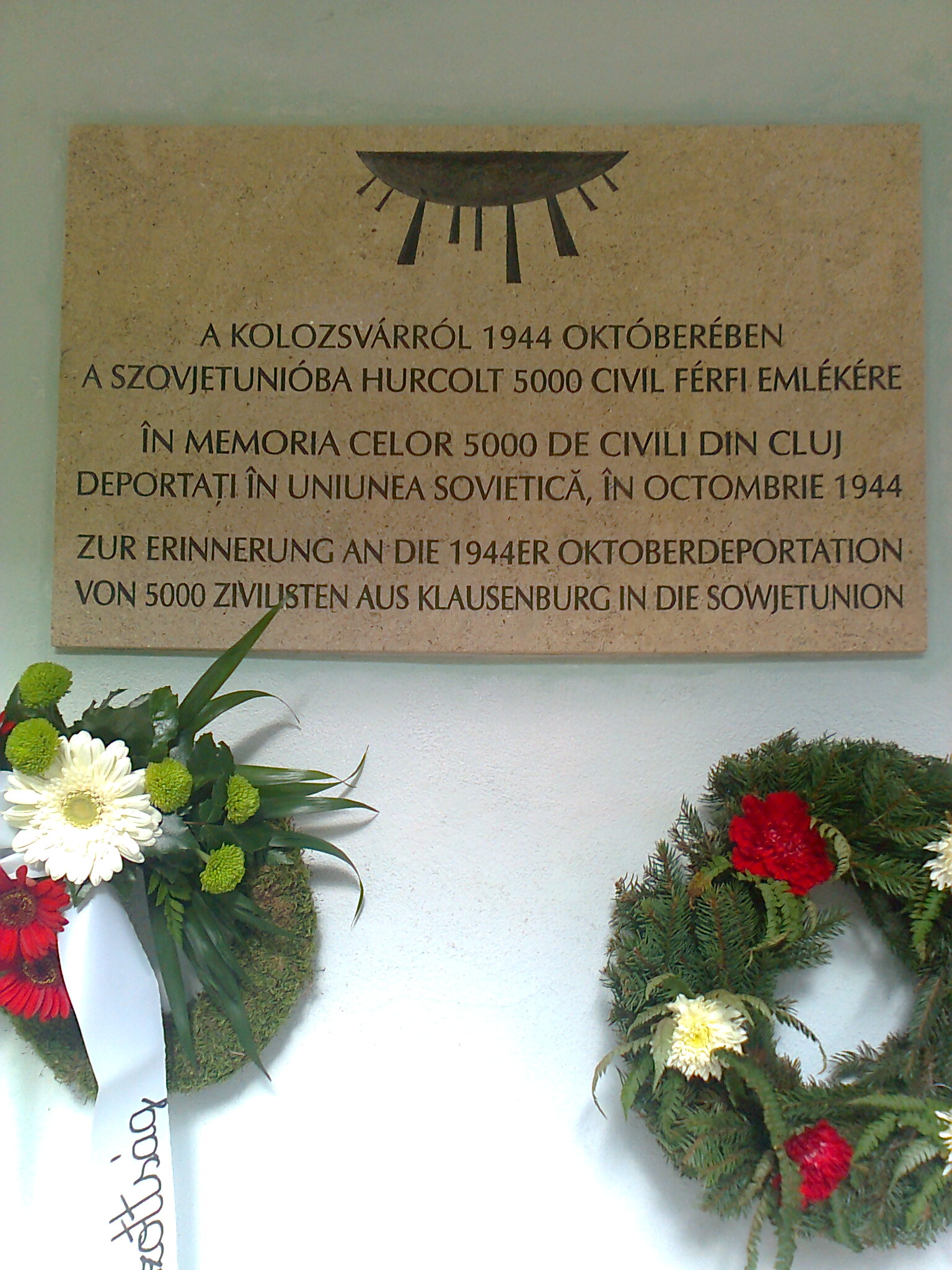 Plaque in memory of the civilians who were deported in Soviet Union in 1944. Cluj (Romania)